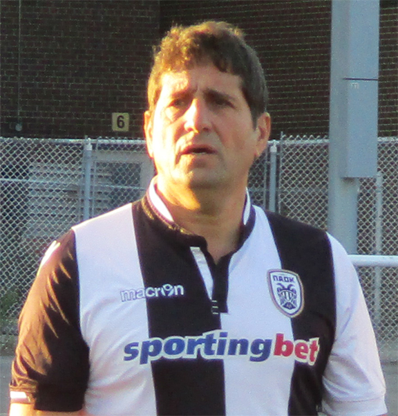 Former PAOK FC striker Michalis Iordanidis during a PAOK Veterans friendly match against Homer FC in Toronto.